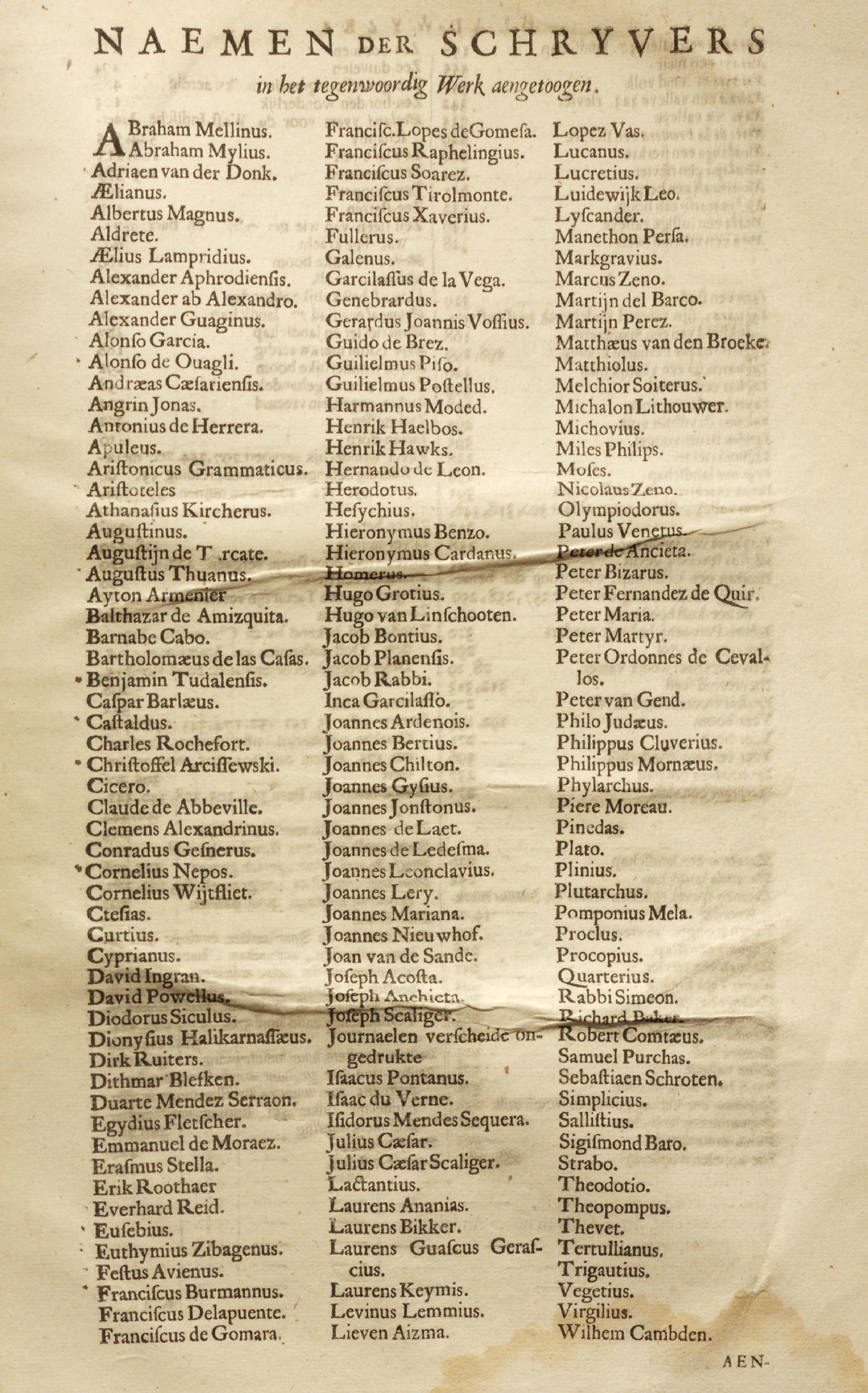 A list of names which is included in the book De Nieuwe en Onbekende Weereld (1671)